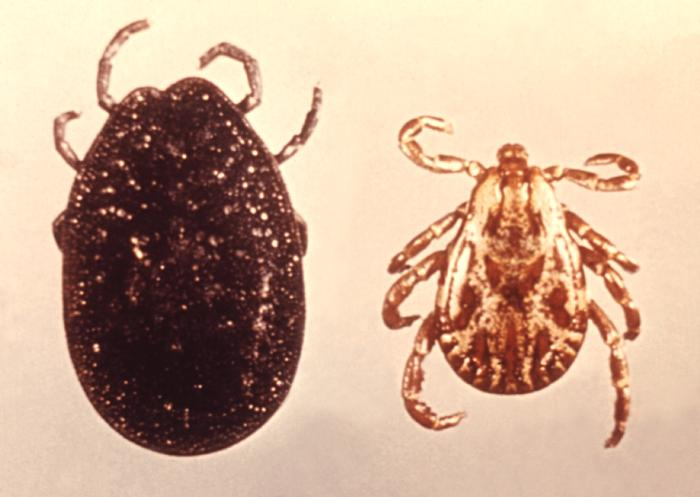 Public Health Image Library, No 5964 [1]